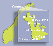 Description: Map of the island Vanna in Troms, Norway. Artist: Elisabethd Date: June 2004. Licenses: cc-by-sa-2.0 and GFDL